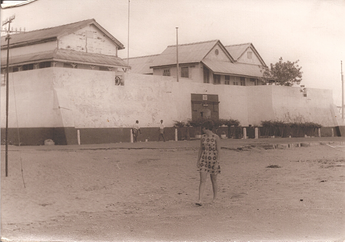 Fort Prinzestein, a Danish fort in Ghana used during slave trade era. The fort was used as a police department office, court and jail by the Ghanaian government in 1970, the time of the photograph.